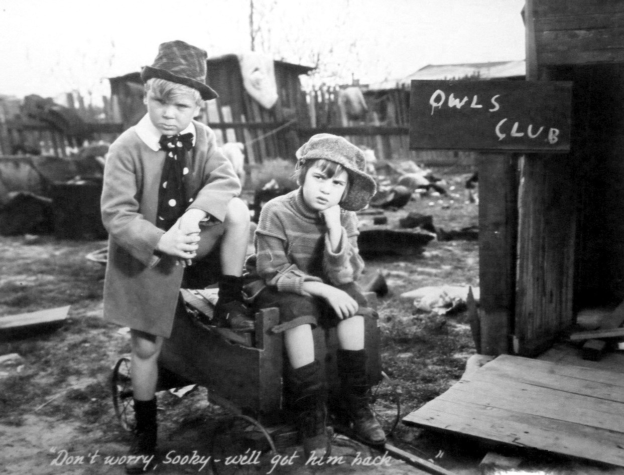 Photo of Jackie Cooper as Skippy and Robert Coogan as Sooky from the 1931 film Skippy. The characters originated as a Percy Crosby comic strip.